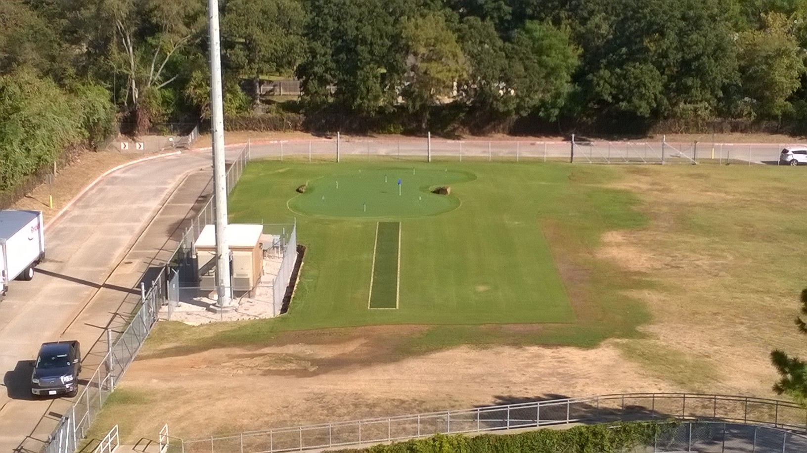 UTA Mavericks new putting green practice facility.